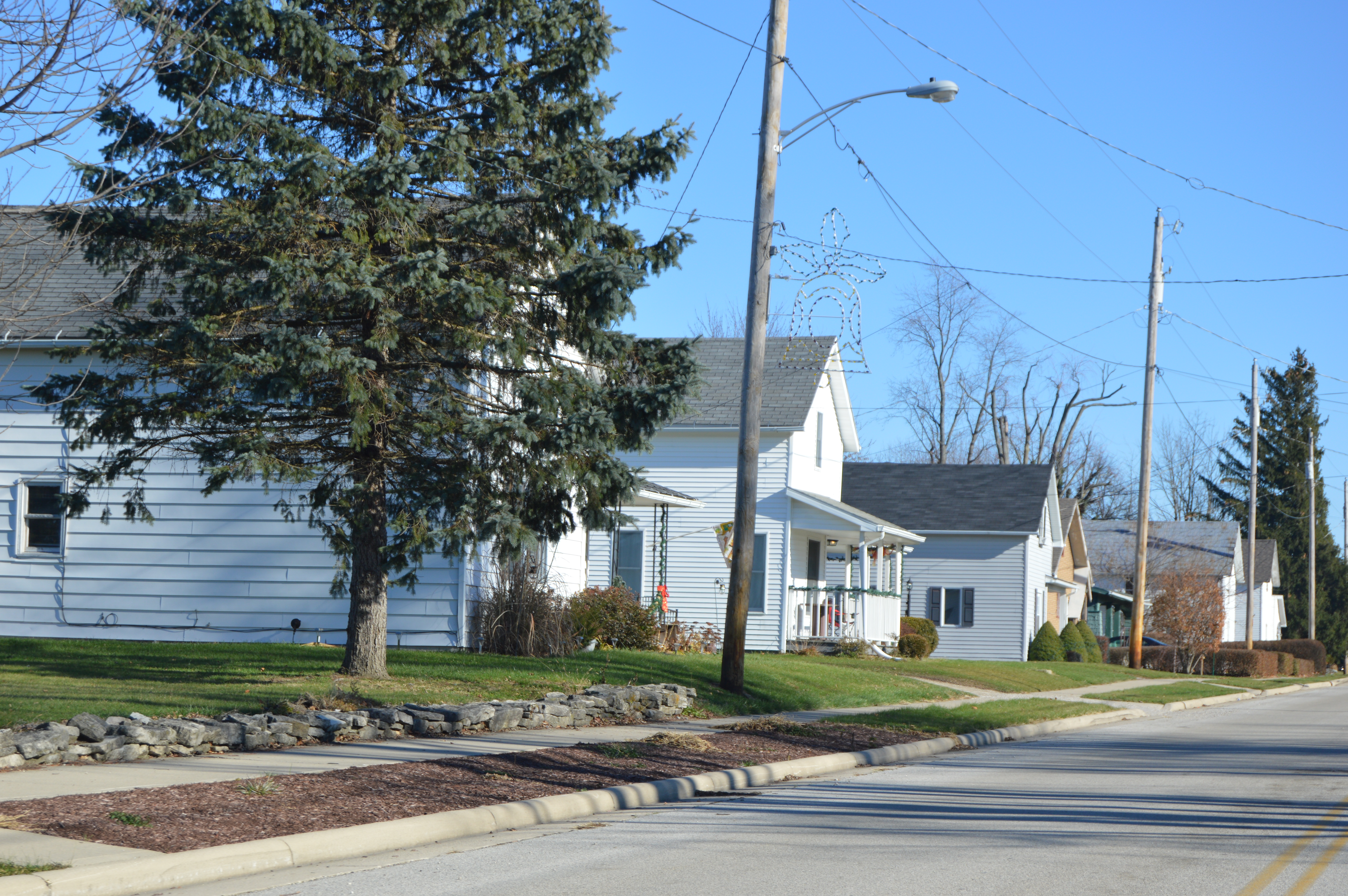 Houses on the northern side of the first block of E. Jackson Street in Wren, Ohio, United States.